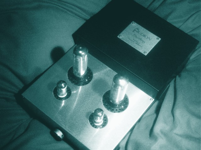 Audion Sterling ETSE (Extended Triode Single Ended Stereo) tube amplifier.